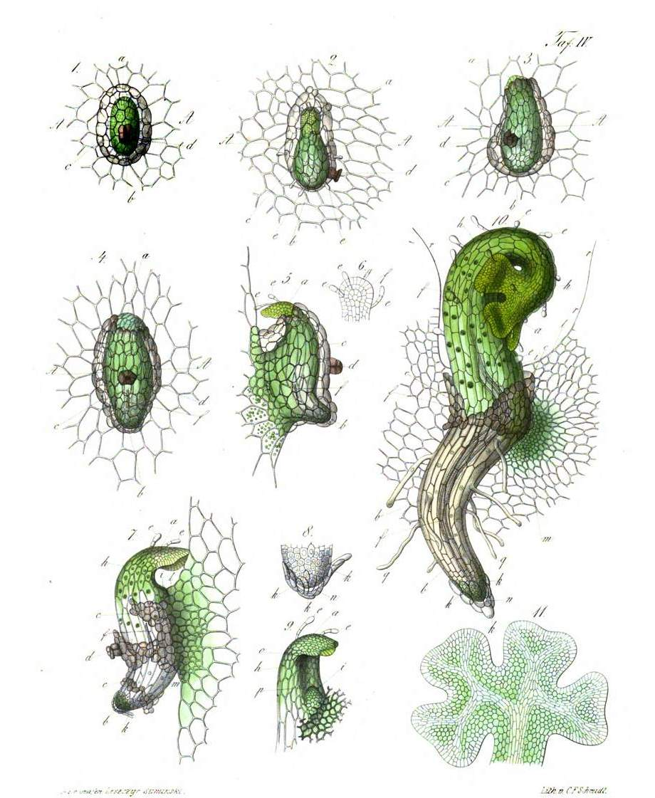 Botanical illustration of a Pteris fern frond. From 1848 treatise by Polish botanist Michał Hieronim Leszczyc-Sumiński.